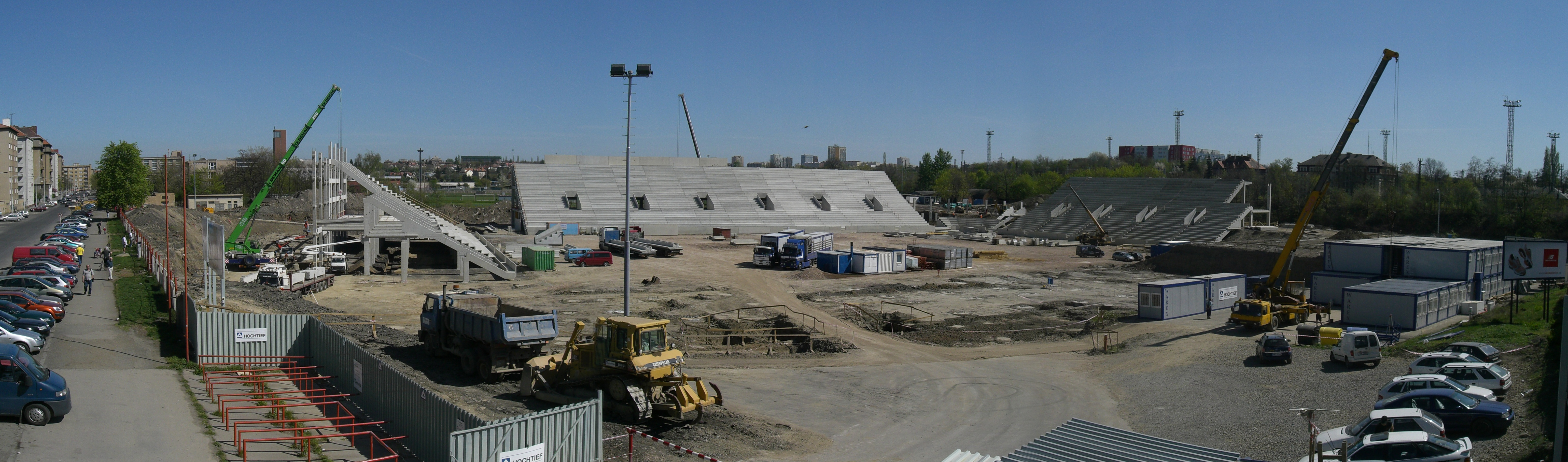 Stadion Eden in construction, Vršovice, Prague